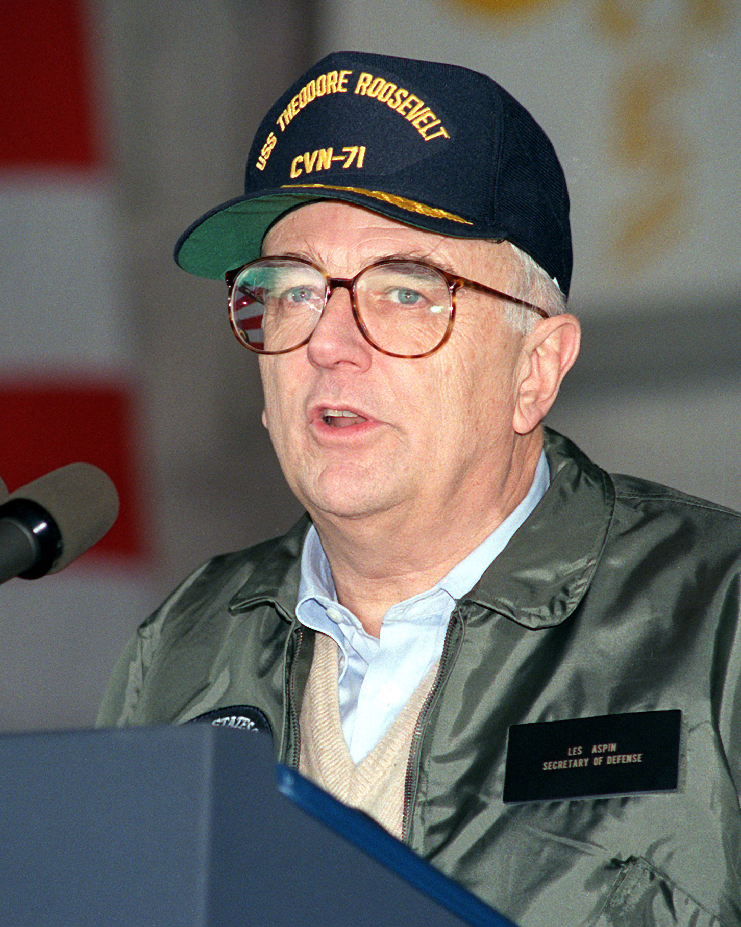 Les Aspin, former Secretary of Defense, addresses the crew of the nuclear-powered aircraft carrier USS THEODORE ROOSEVELT (CVN-71). Aspin and President William Jefferson Clinton are visiting aboard the ROOSEVELT as it is underway off the coast of Norfolk, Virginia.